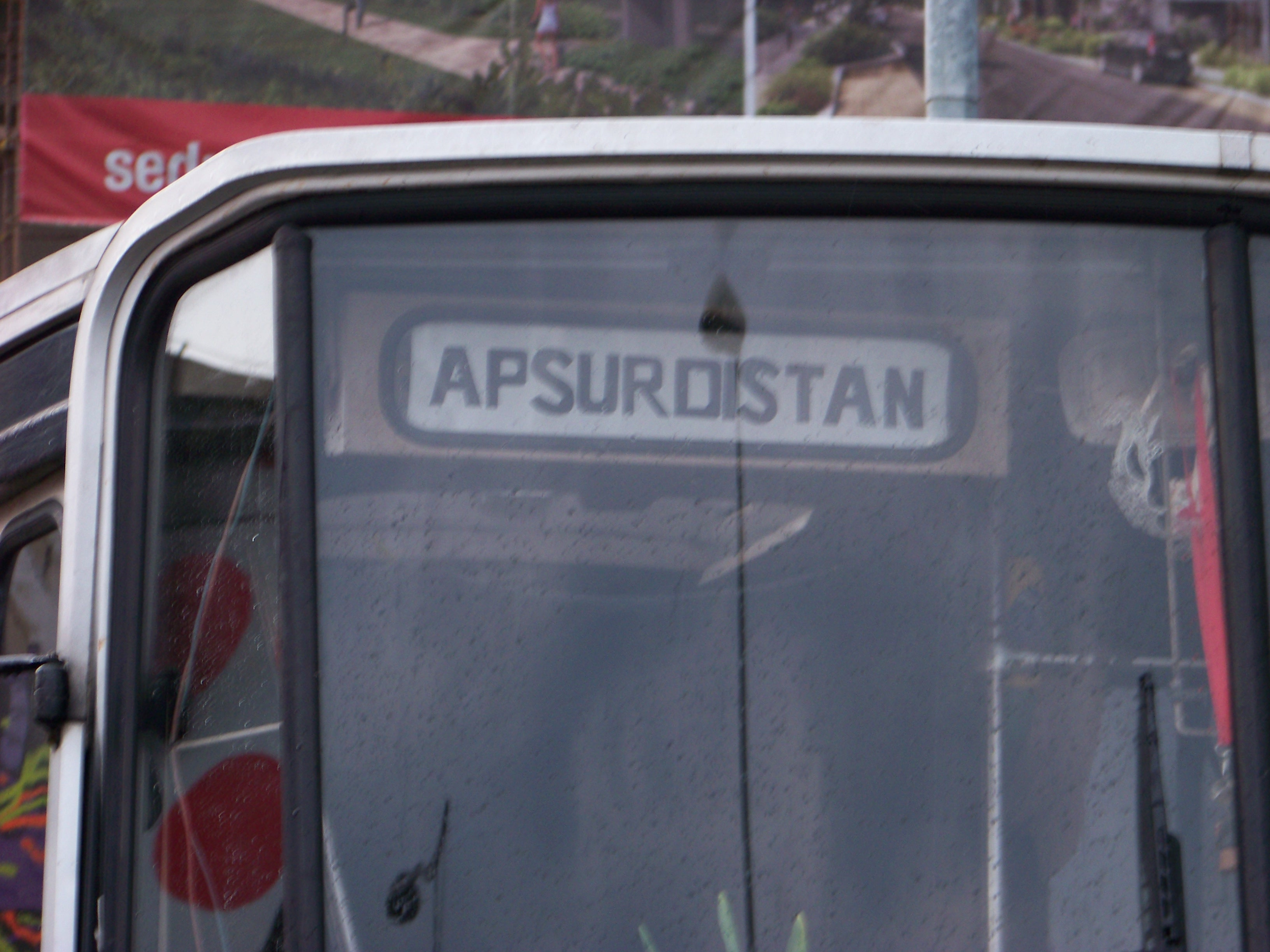 Prague-Libeň, Czech Republic. Kurta Konráda street, a French bus to Apsurdistan near the Trafačka Gallery.